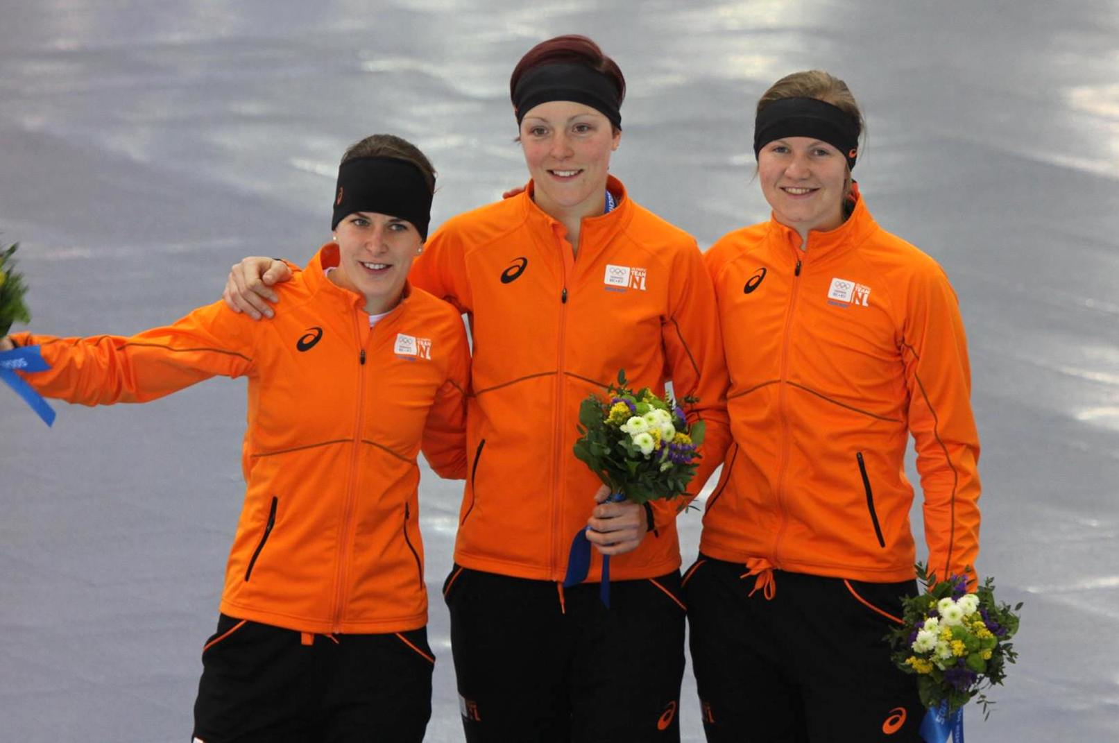 Women's 1500m, 2014 Winter Olympics, Podium 1) Jorien ter Mors 2) Ireen Wust 3) Lotte van Beek